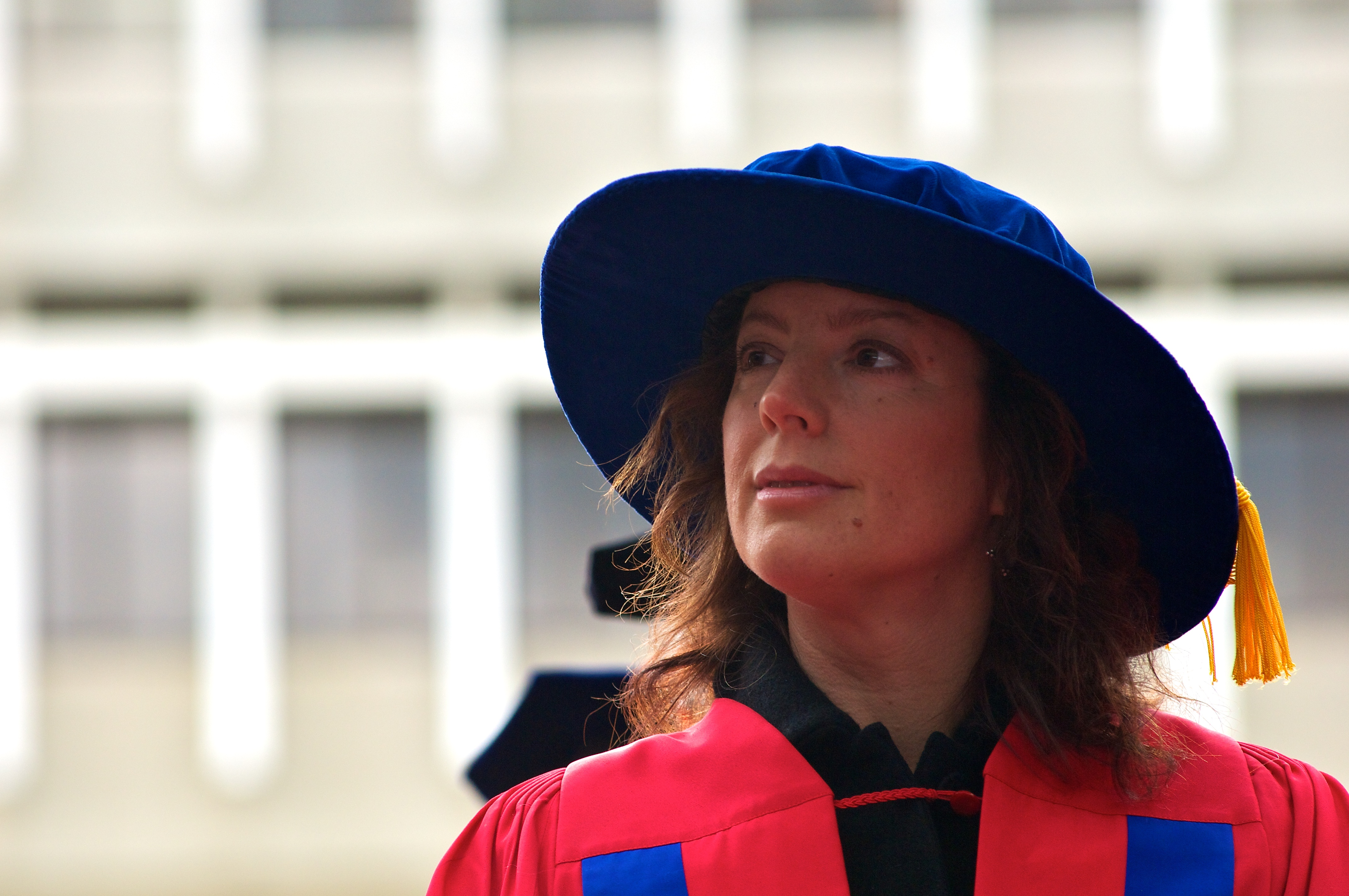 Sarah McLachlan, a multi-platinum Grammy- and Juno-award-winning Vancouver musician and singer-songwriter, was recognized with an honorary degree from Simon Fraser University today. (June 15, 2011)